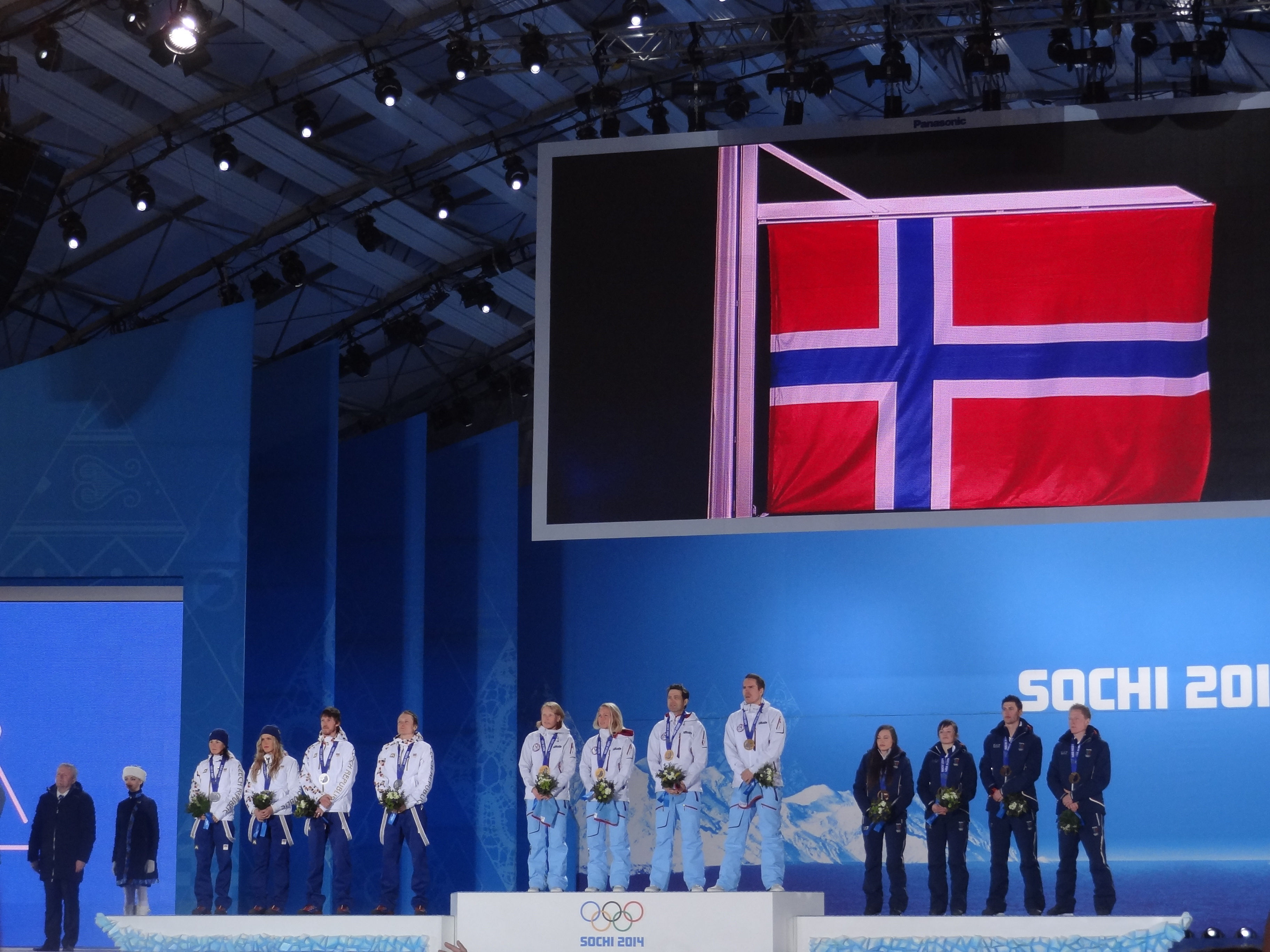 2x6km Women + 2x7.5km Men Mixed Relay - Biathlon - Sochi 2014.Gold: Norway - Tora Berger, Ole Einar Bjoerndalen, Tiril Eckhoff and Emil Hegle Svendsen.Silver: Czech Republic - Ondrej Moravec, Gabriela Soukalova, Jaroslav Soukup and Veronika Vitkova.Bronze: Italy - Lukas Hofer, Karin Oberhofer, Dorothea Wierer and Dominik Windisch.